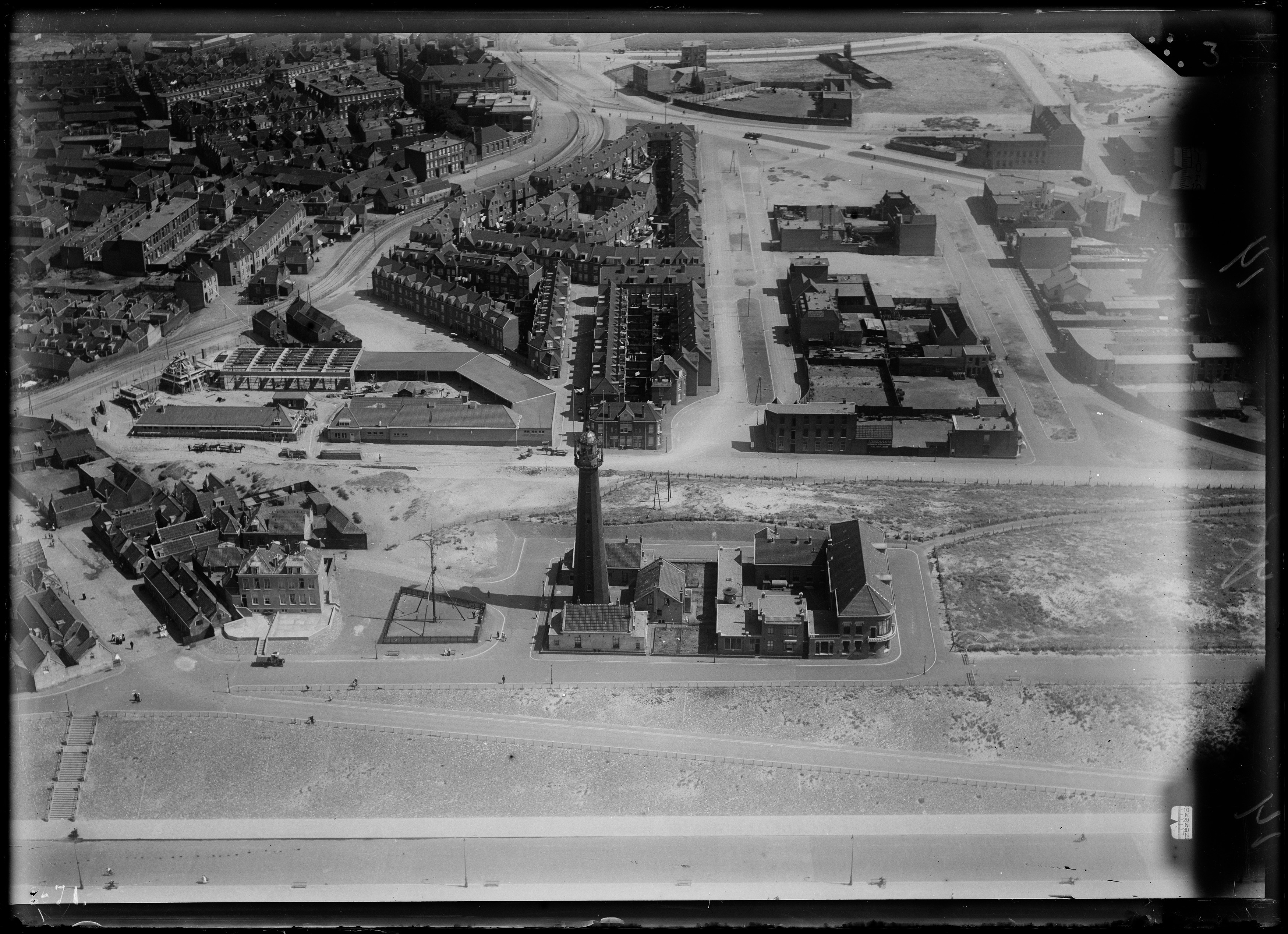 Aerial photograph of Scheveningen, The Netherlands